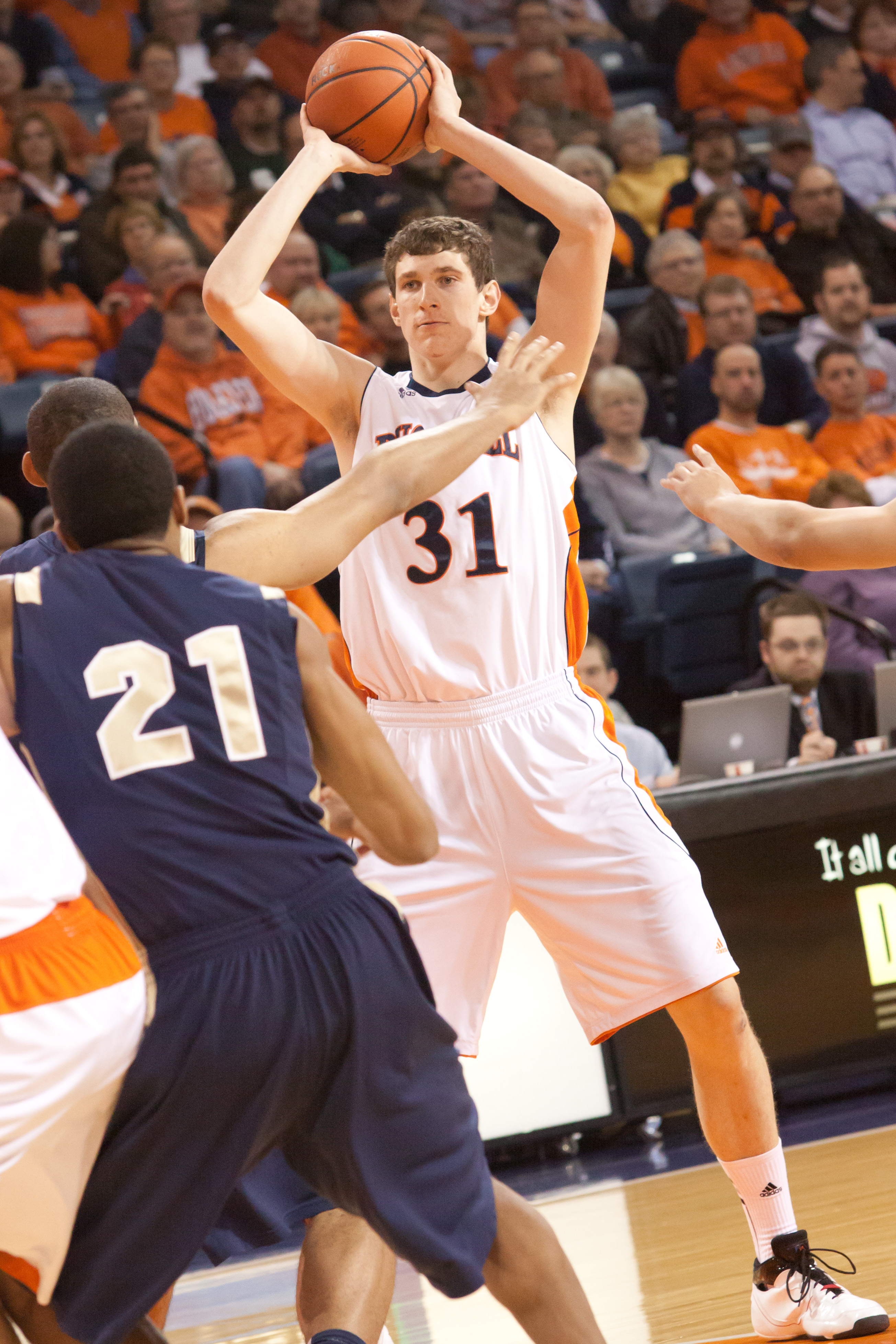 Mike Muscala playing for Bucknell Bison against Navy.